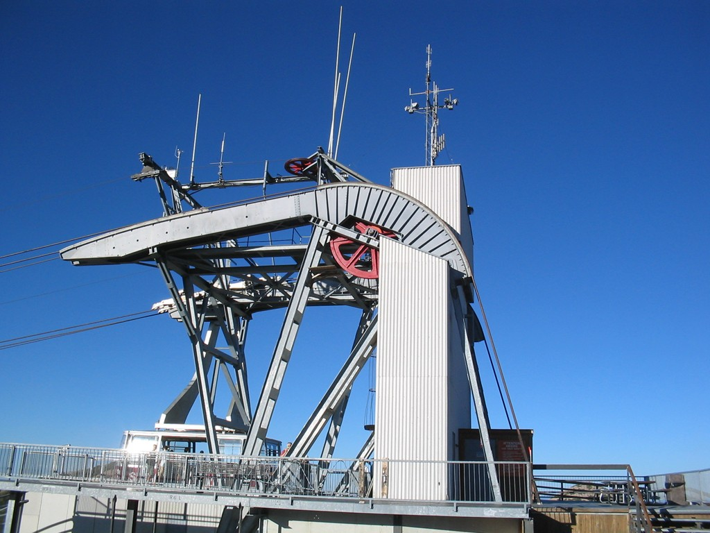 A pristine afternoon east of Salt Lake City, UT.